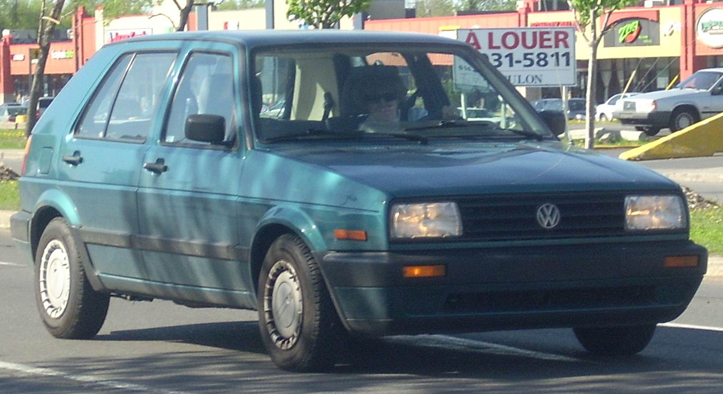 1990-1992 Volkswagen Golf photographed in Montreal, Quebec, Canada.